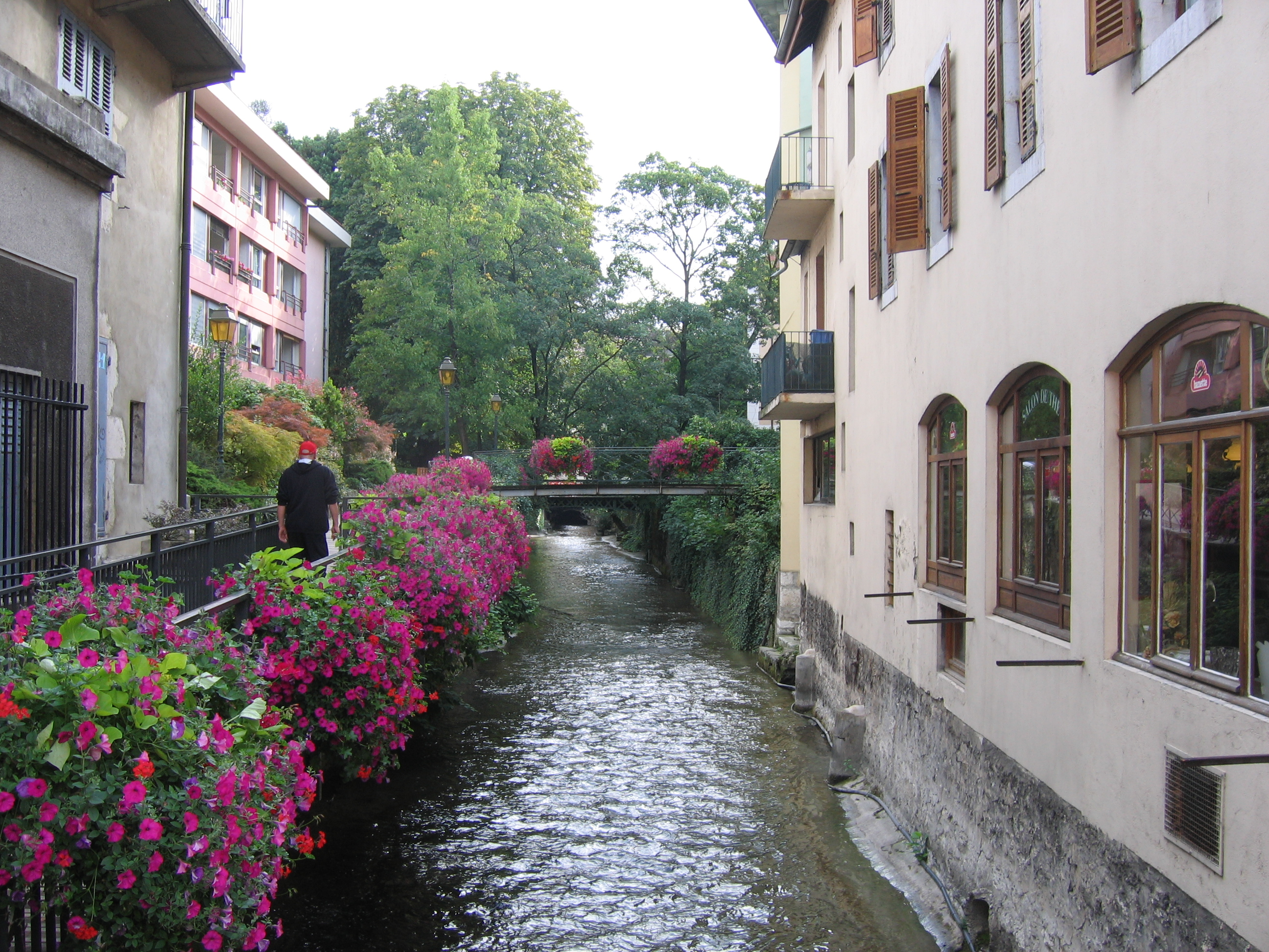 Downtown Annecy (Annecy), taken from a bridge over a stream, the Thiou, thru the old town.